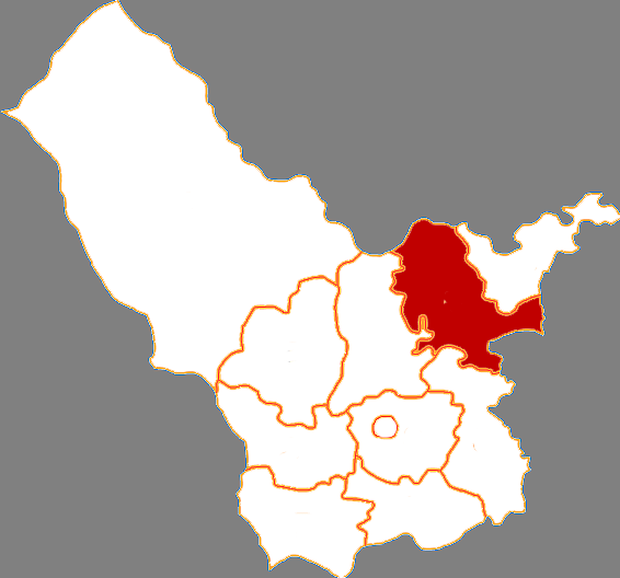 Locator map of Shangdu County in Ulanqab City, Inner Mongolia, China